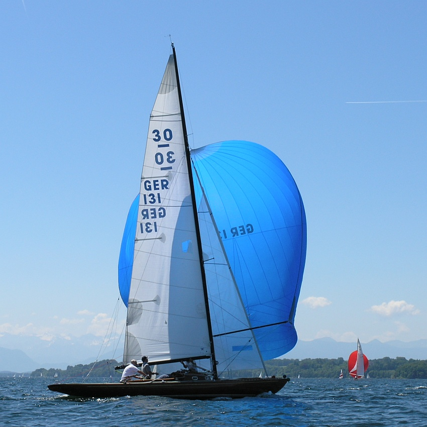 30m2 Skerry Cruiser